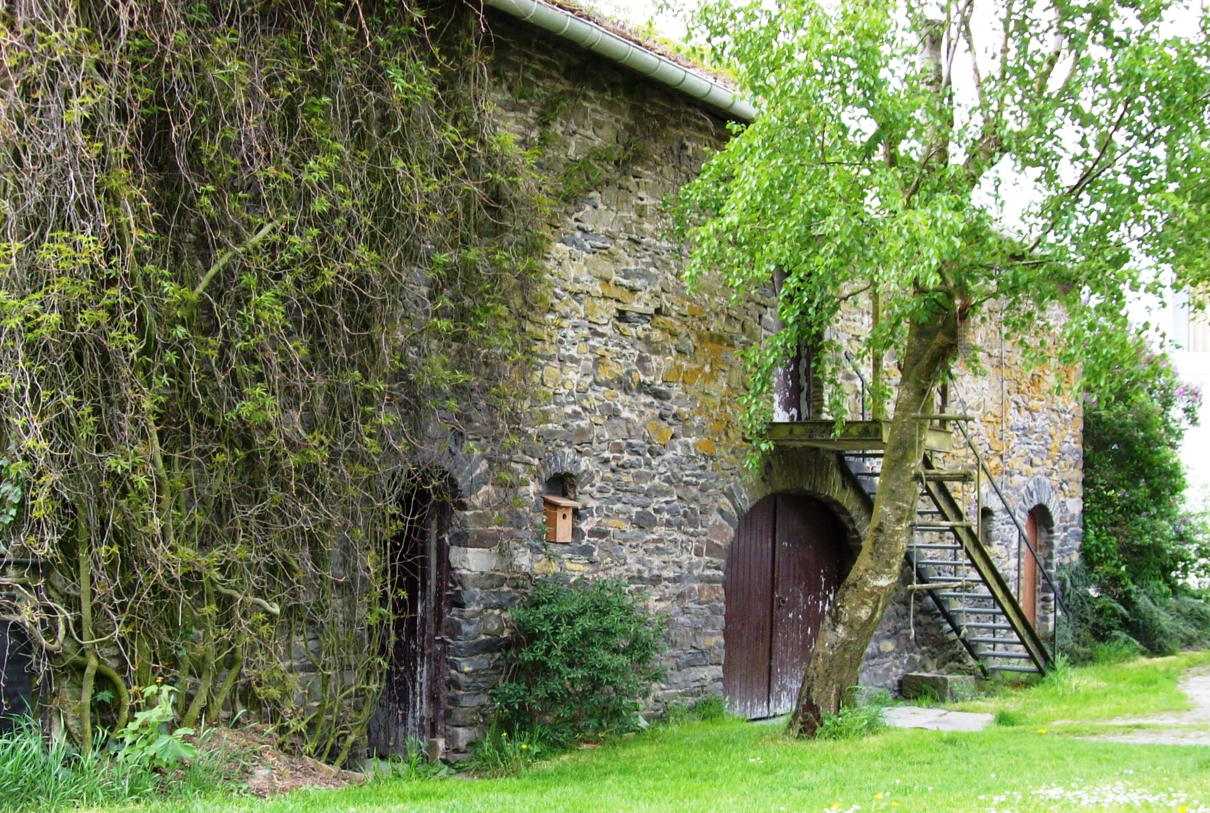 The most ancient house of Flamisoul